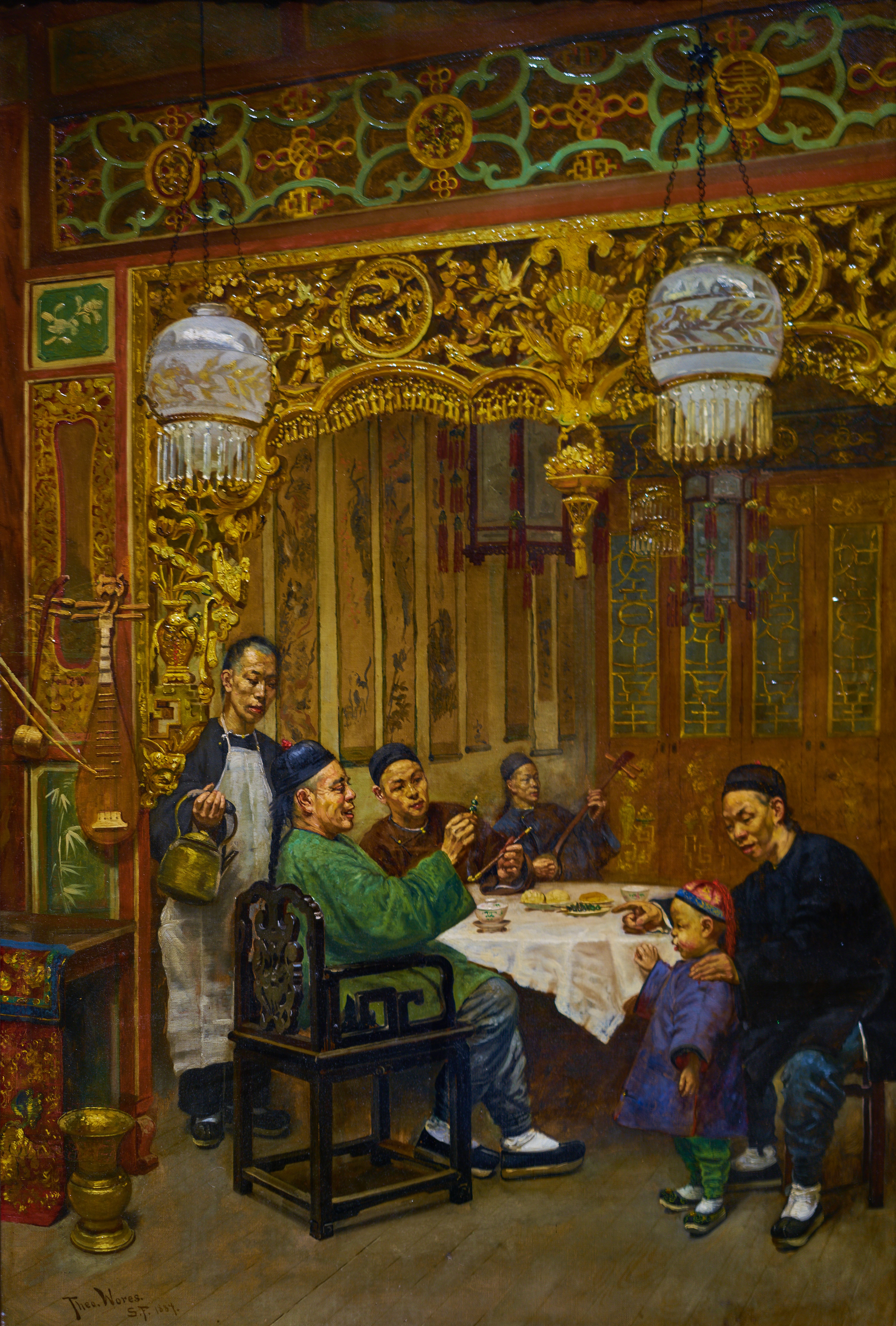 Chinese Restaurant. 1884. Oil on canvas. Crocker Art Museum purchase made possible by Louise and Victor Graf with contributions from Simon K. Chiu, Denise and Donald Timmons, Nancy Lawrence and Gordon Klein, Linda Lawrence, Anne and Malcolm McHenry, Janet Mohle-Boetani and Mark Manasse, Marcy Friedman, Nancy and Dennis Marks, and Eleanor Matranga, 2015.1.